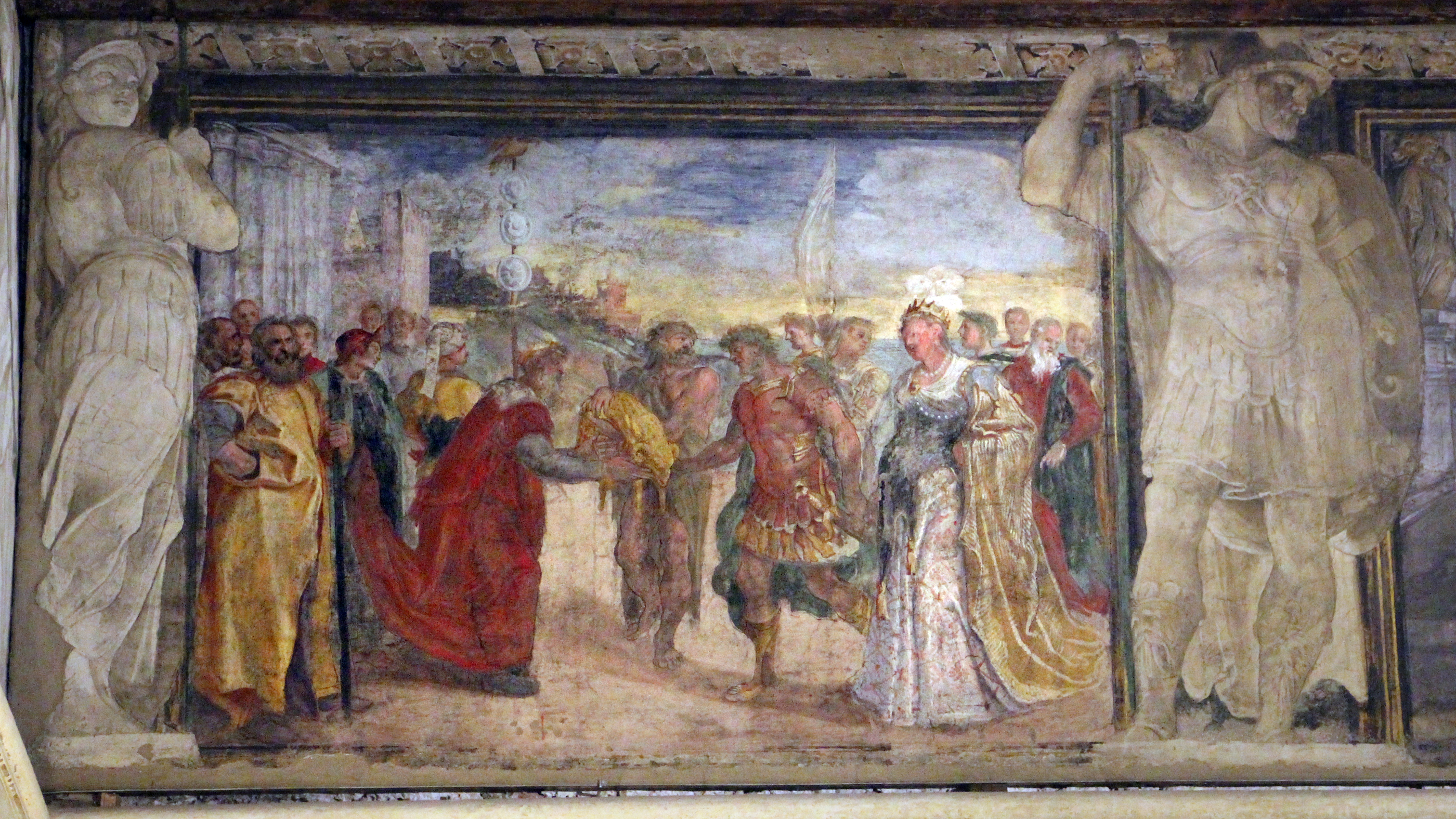 Frieze of Jason and Medea